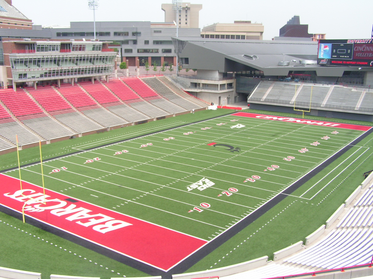 Photo of Nippert Stadium on the University of Cincinnati Campus. June 1, 2006.